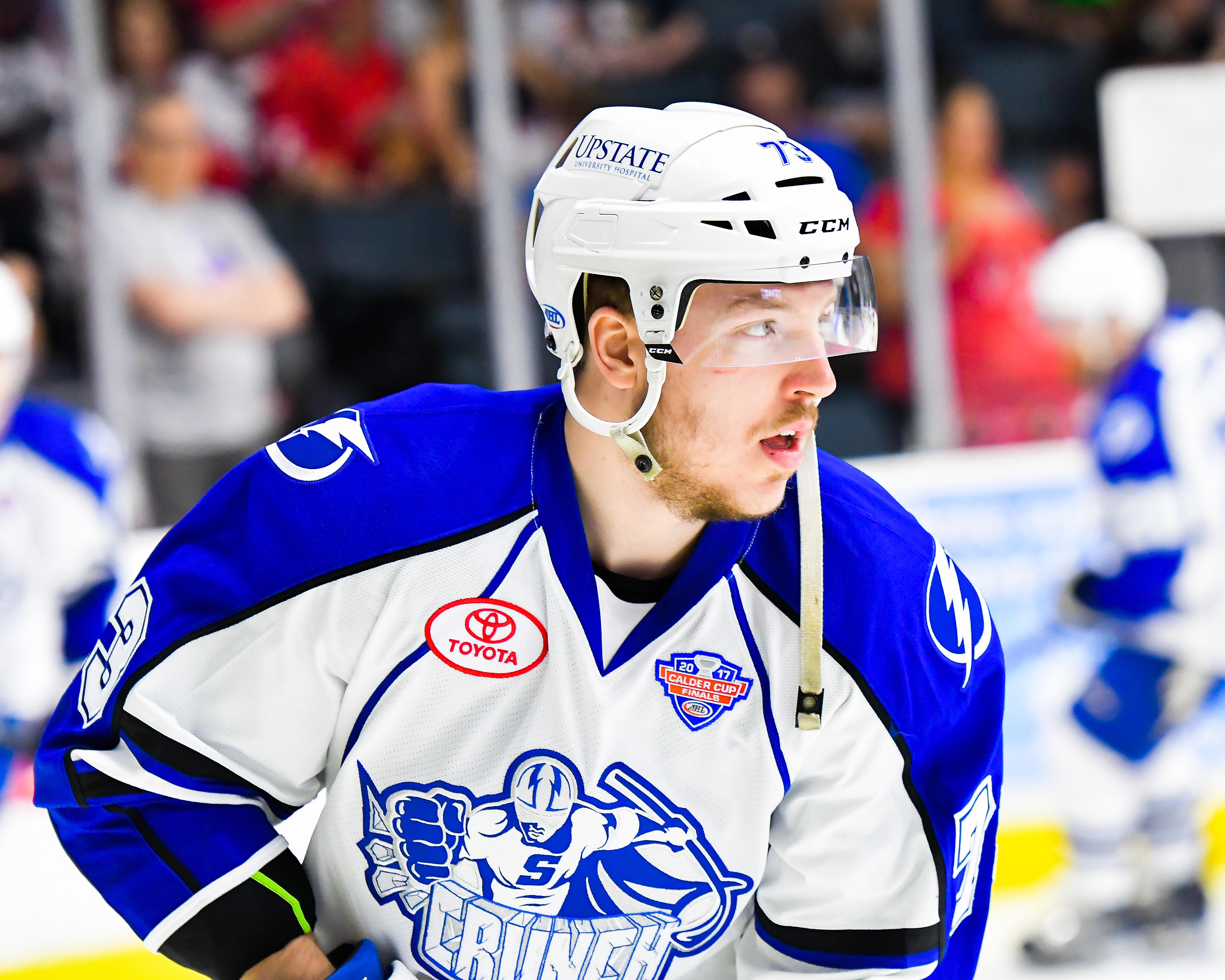 Photo: Scott Thomas